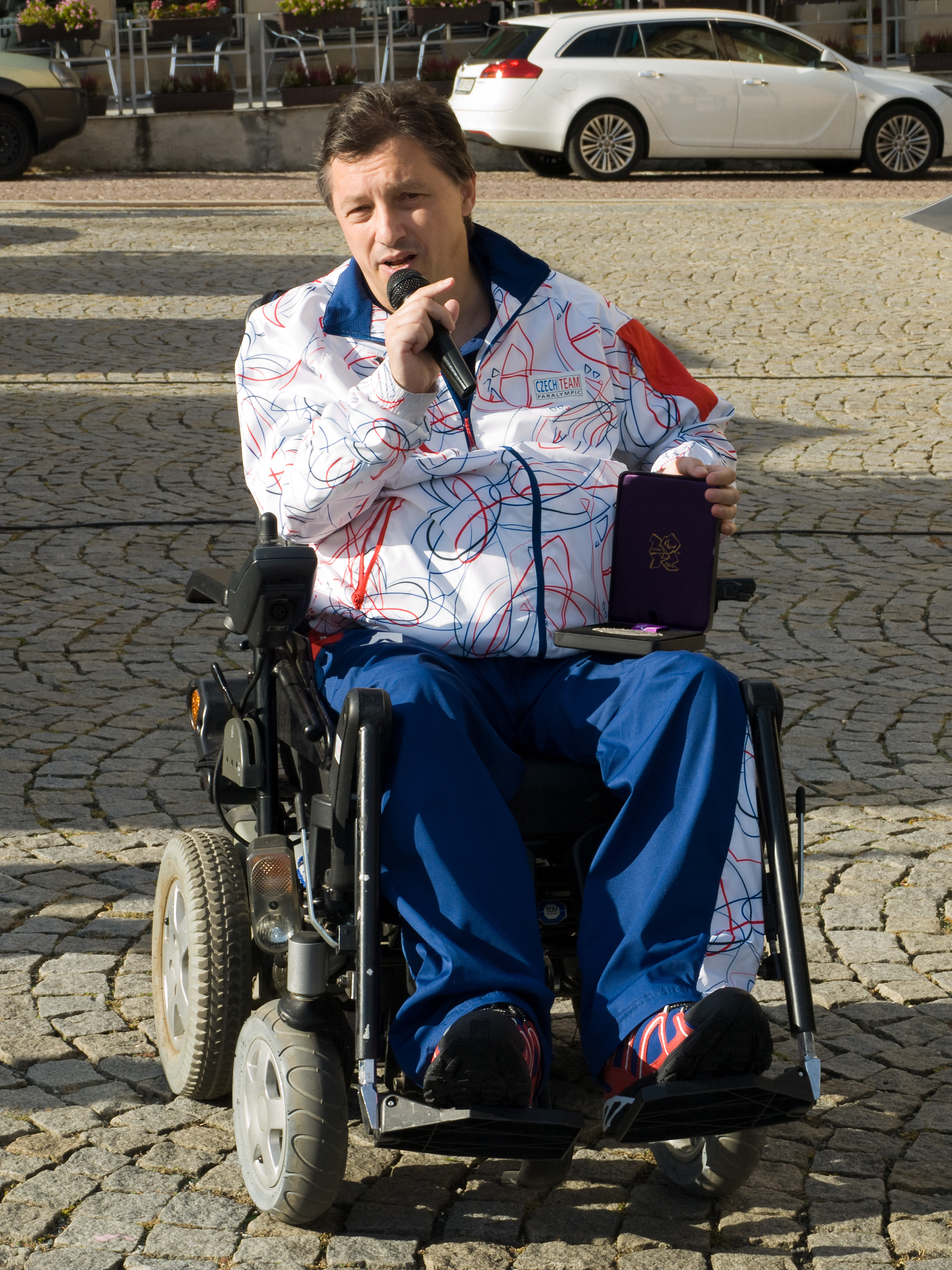 Leoš Lacina, Czech Paralympian, boccia silver medalist